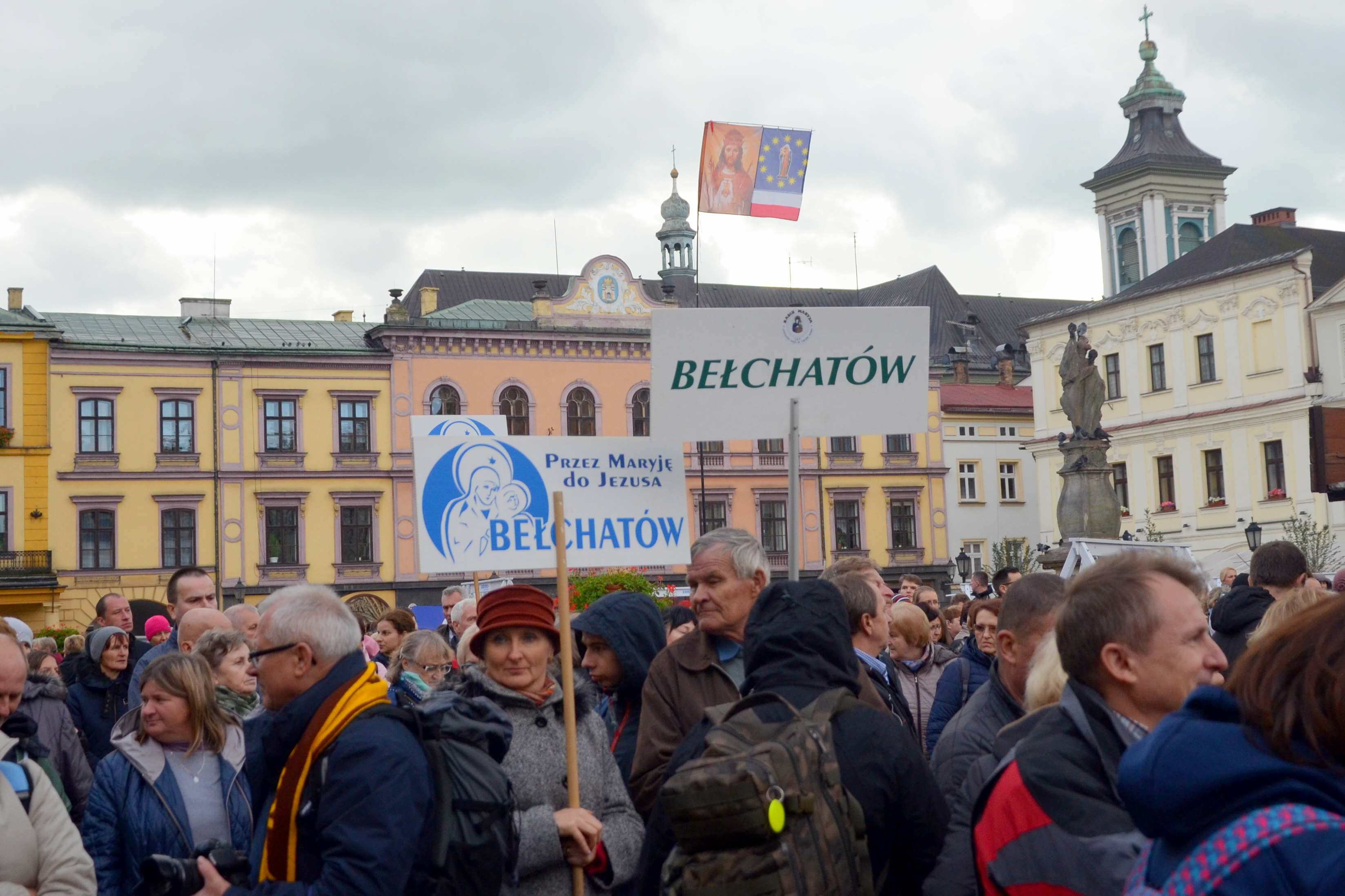 Das gemeinsame Rosenkranzgebet für Polen und für die Welt in Cieszyn